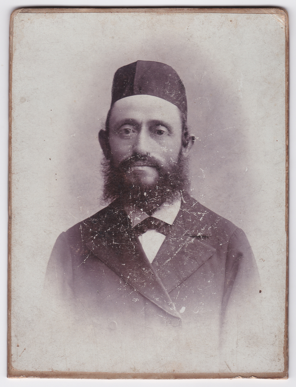 Shalom Shakhna Tsherniak (putative) (שלום שכנא צ'רניאק)